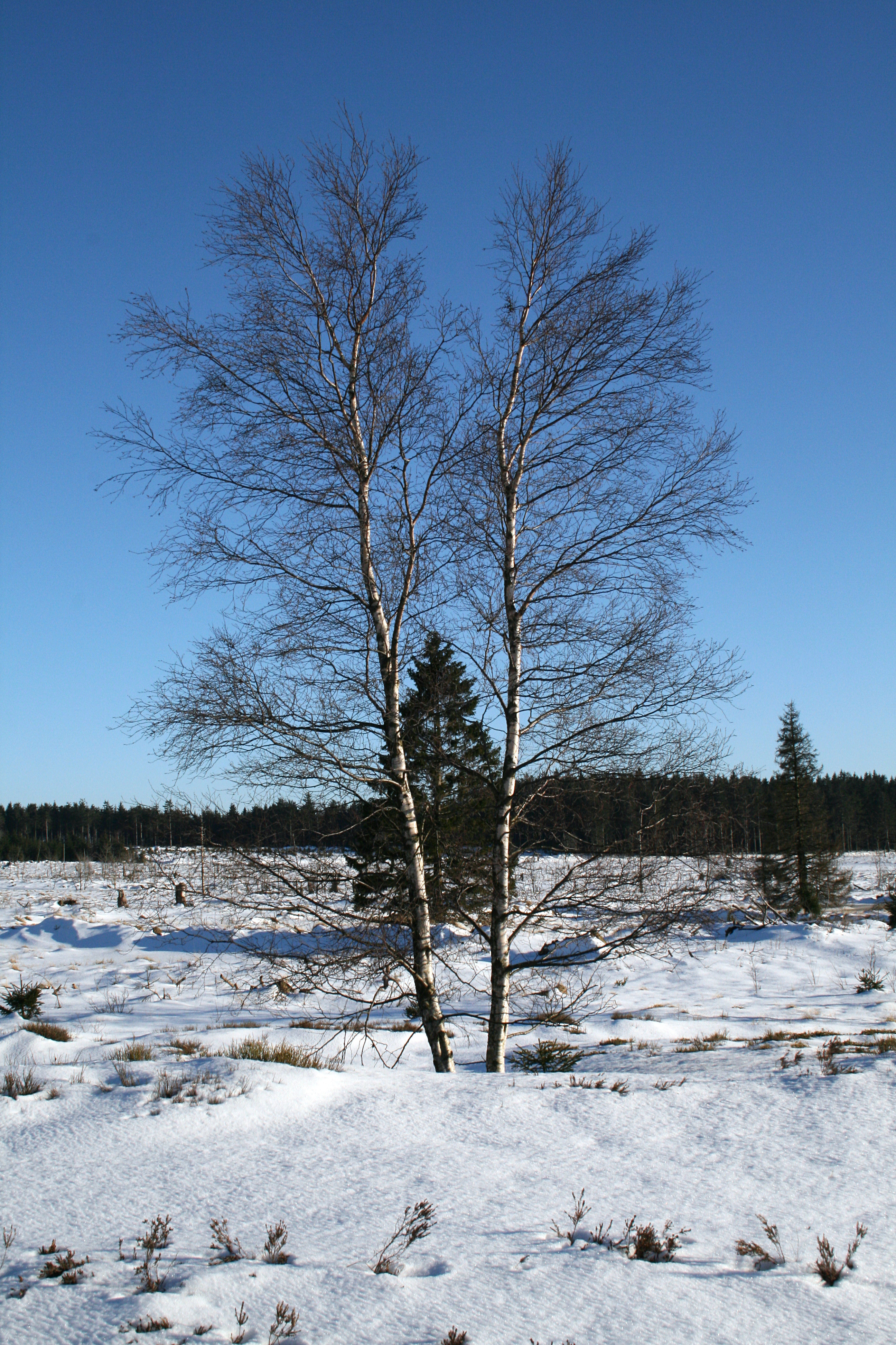 Downy birch; also known as moor birch, white birch, European white birch or hairy birch - (Betula pubescens). Precise location : Fens of the “Vecquée” in Xhoffraix - High Fens (Belgium).